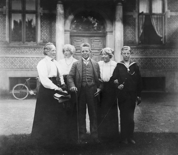 The Carl Nielsen family in the courtyard in front of the Fuglsang Manor on Lolland where he was a frequent guest of the owners along with other composers and artists, c. 1915